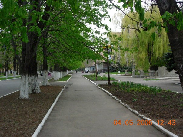 ul. pionerskaya v toreze